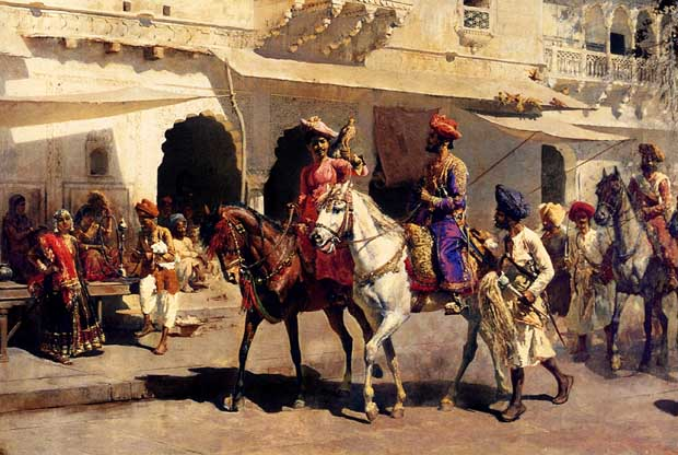 Leaving For The Hunt At Gwalior